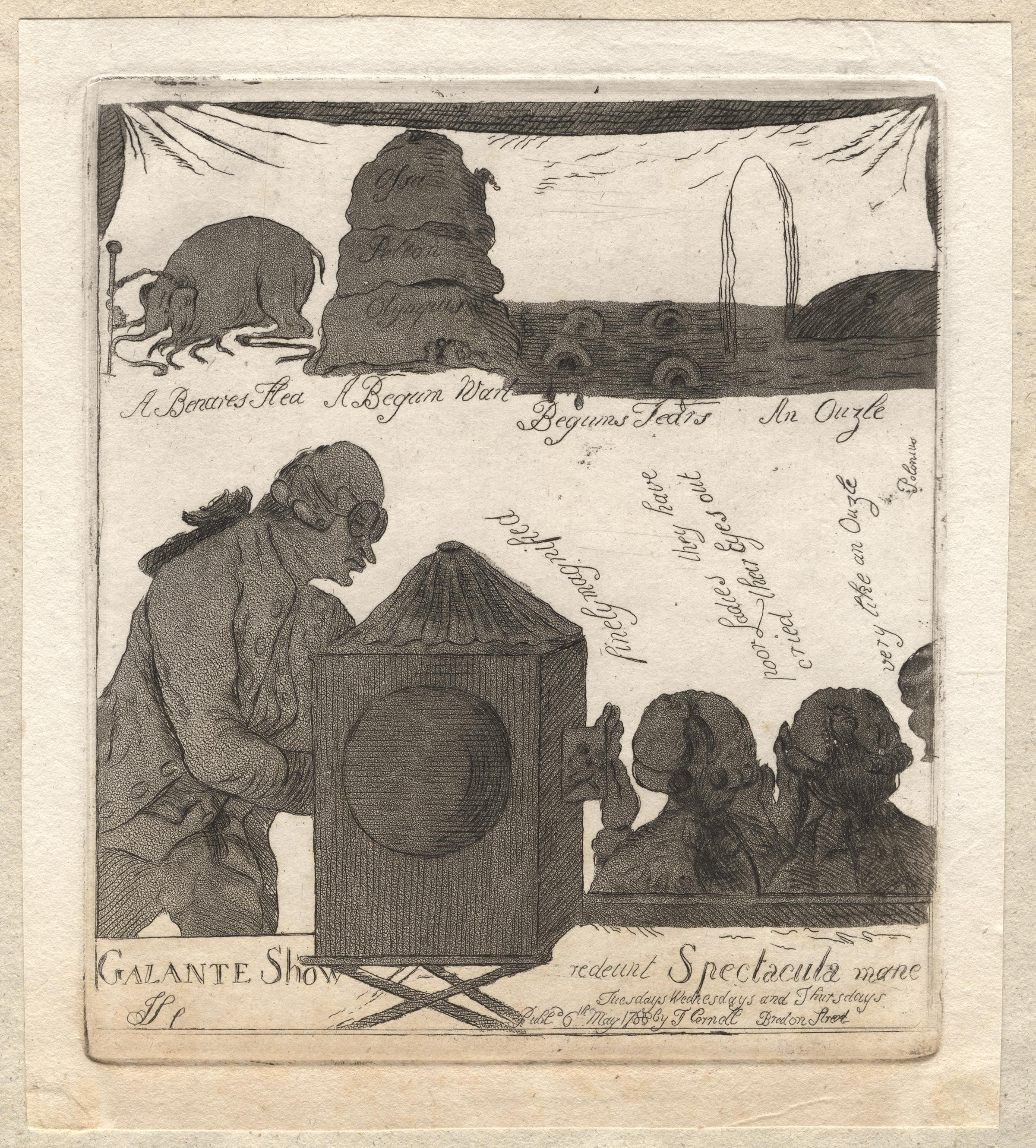 Galante show, by Thomas Cornell (floruit 1792), published 1788. According to the NPG's website the work was published prior to 1859, and so the author is reasonably presumed dead by 1939.